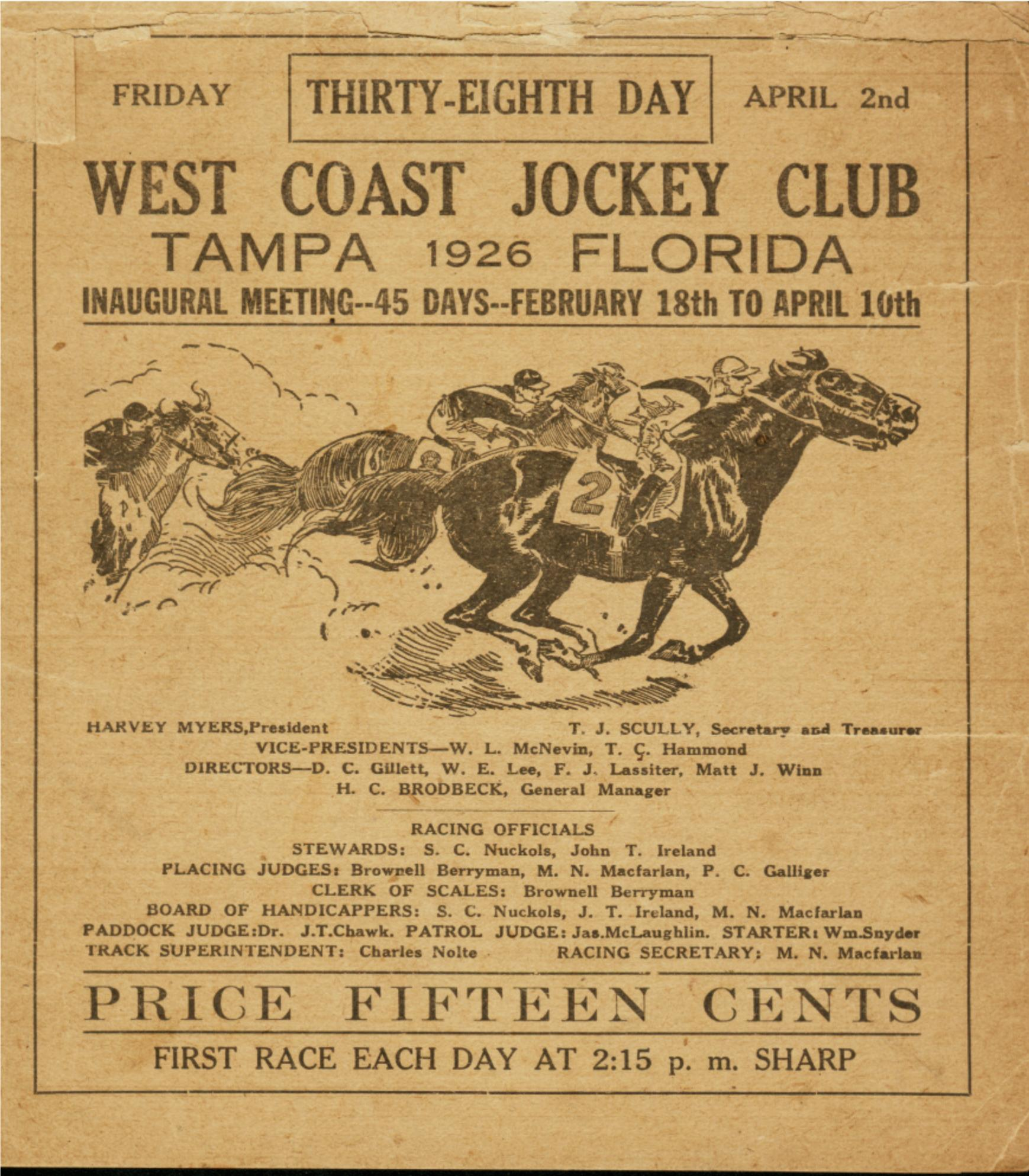 Taken from a scrapbook started by my Great Grandfather and continued by my Grandfather who was a founder of the West Coast Jockey Club and Tampa Downs.